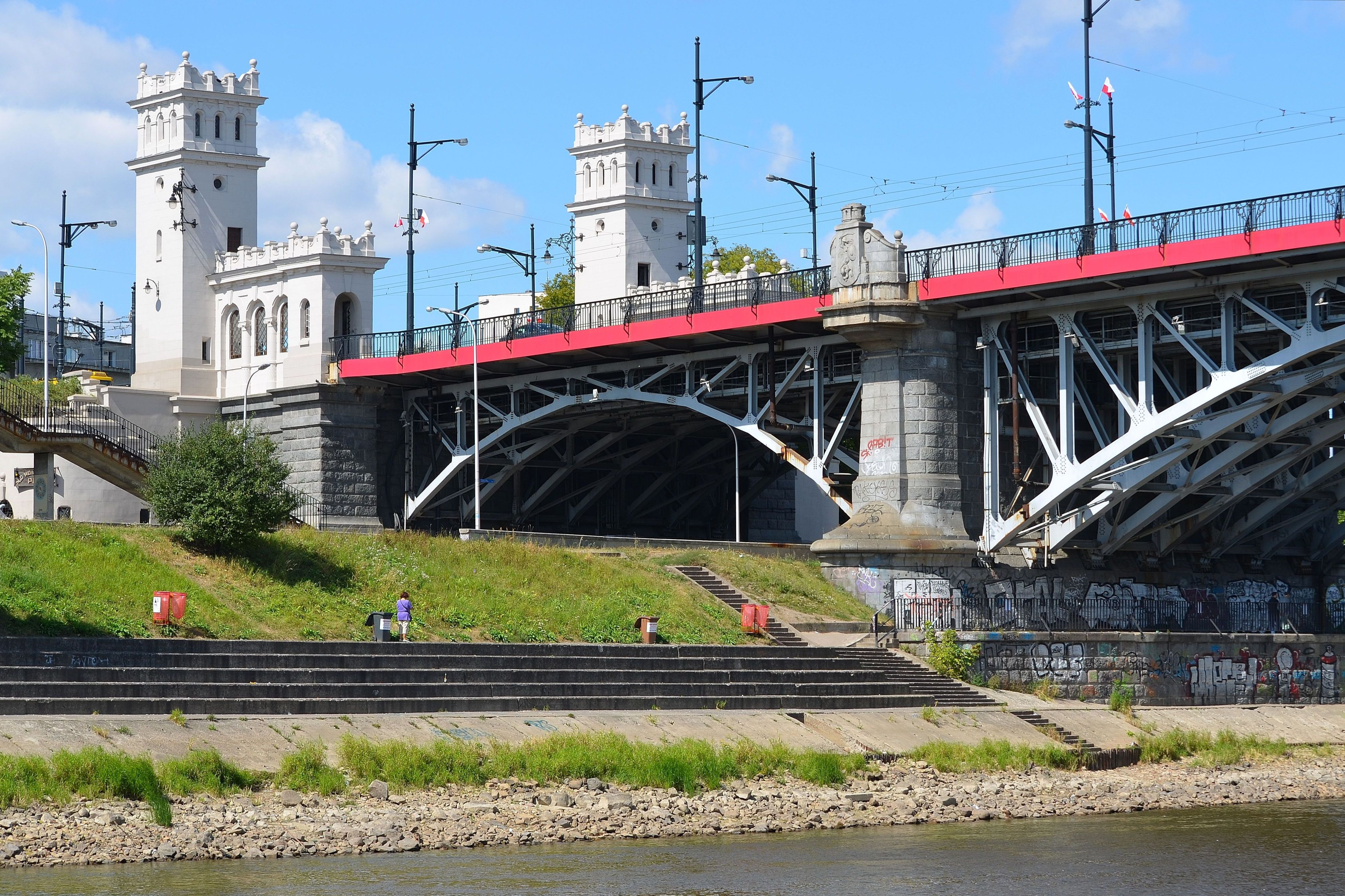 Poniatowski Bridge in Warsaw